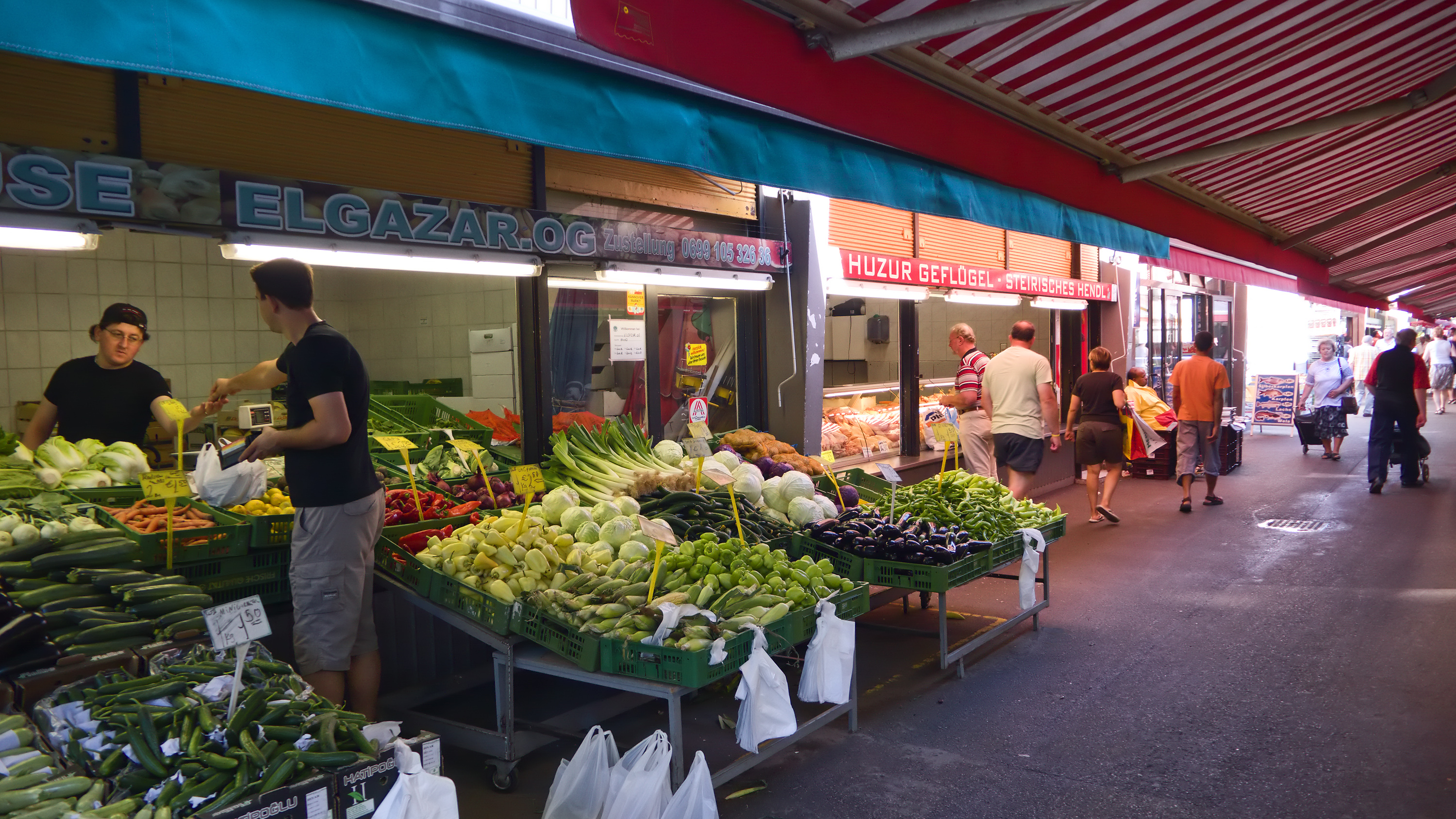 Market Hannovermarkt in Vienna Brigittenau